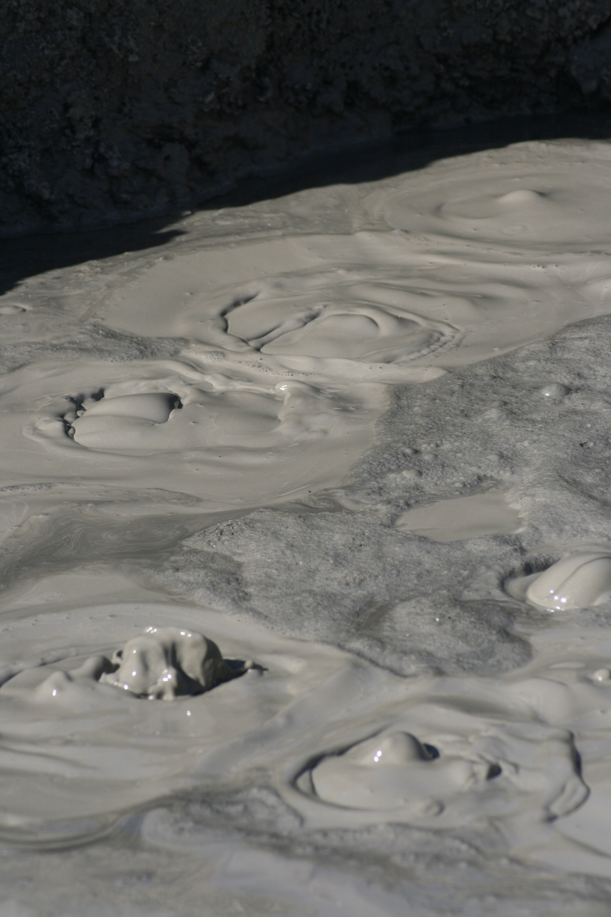 The mud volcanoes at the Salton Sea are very gaseous. When the bubbles burst, it's warm and smells like sulfur.